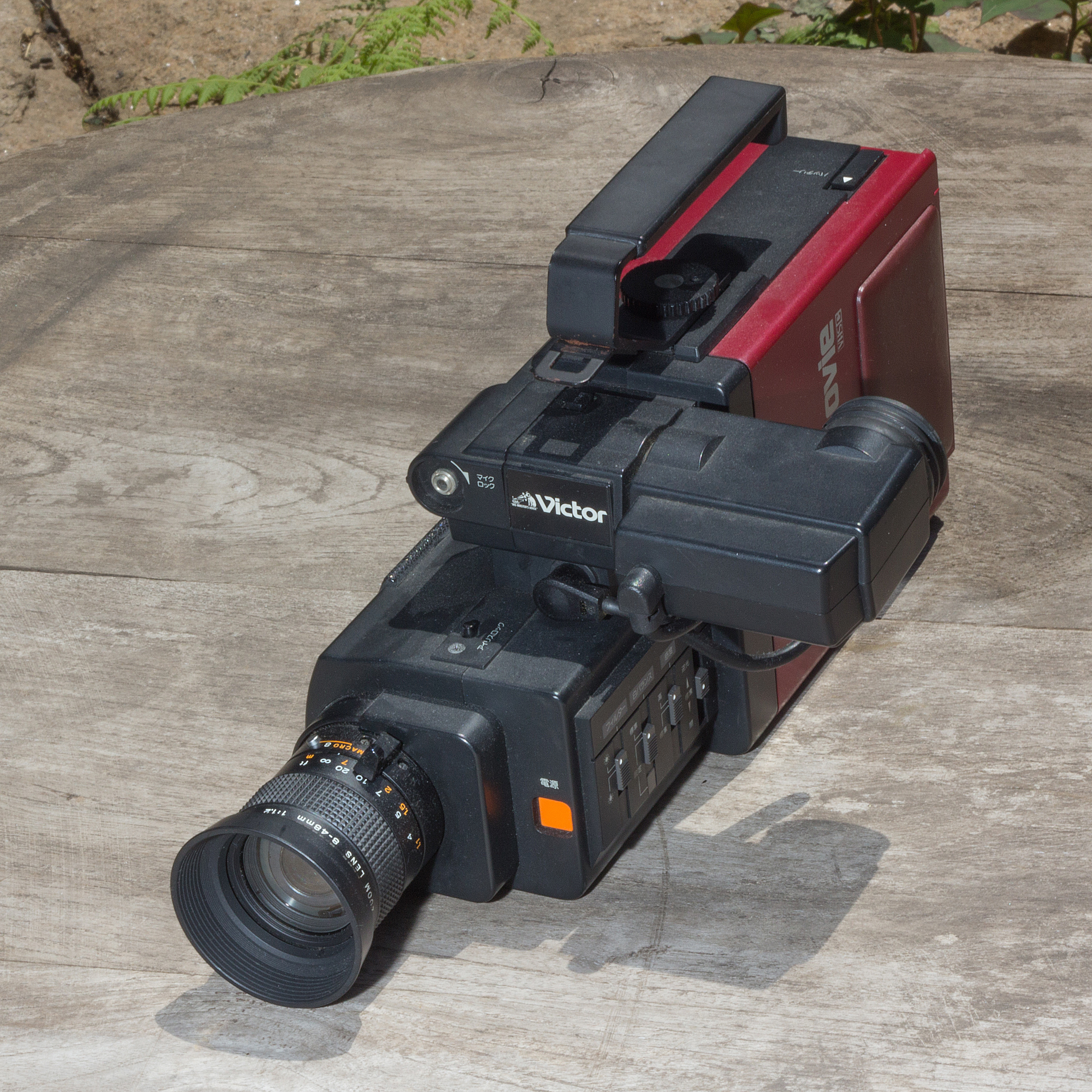 Victor GR-C1 VHS-C camcorder. (Same model as the JVC GR-C1, but using the company's domestic "Victor" brand instead of the "JVC" name used outside Japan).